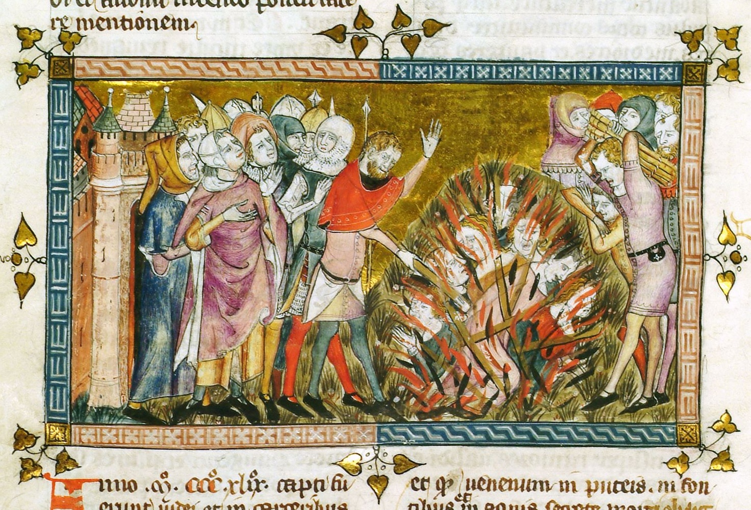 Miniature by Pierart dou Tielt illustrating the Tractatus quartus bu Gilles li Muisit (Tournai, c. 1353)